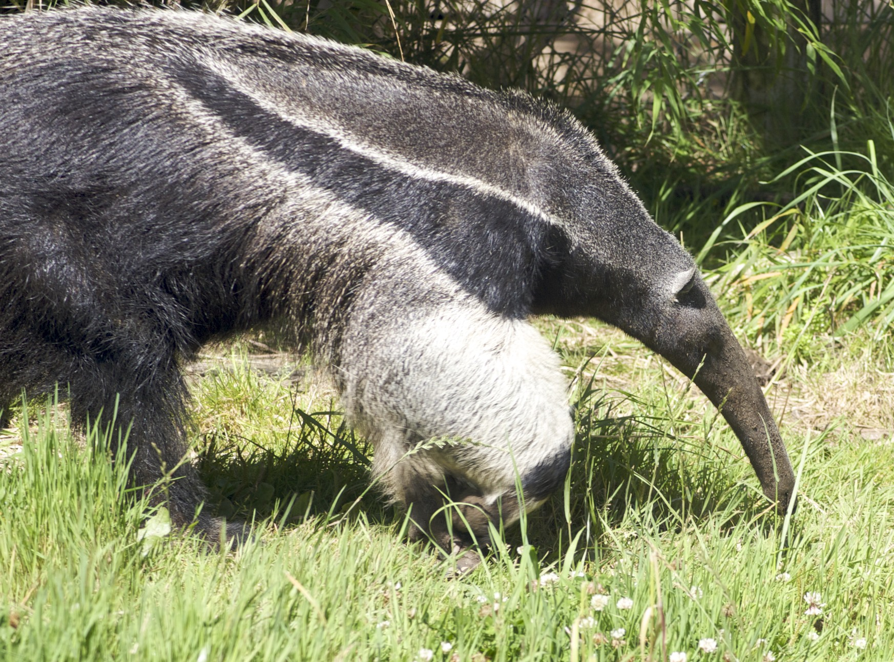 Myrmecophaga tridactyla